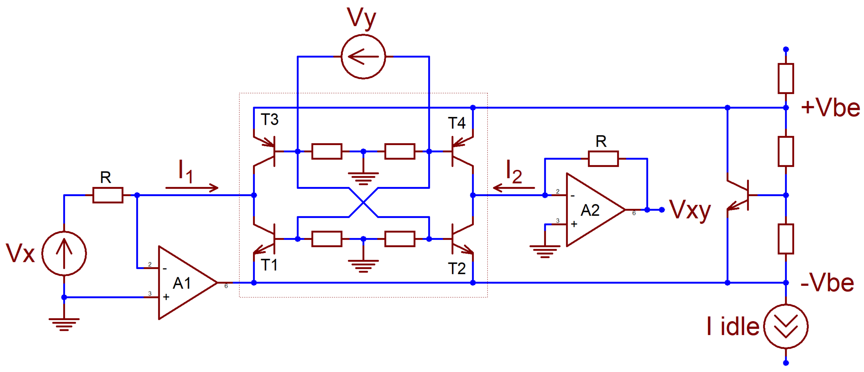 Log-antilog VCA employing basic four-transistor Blackmer cell